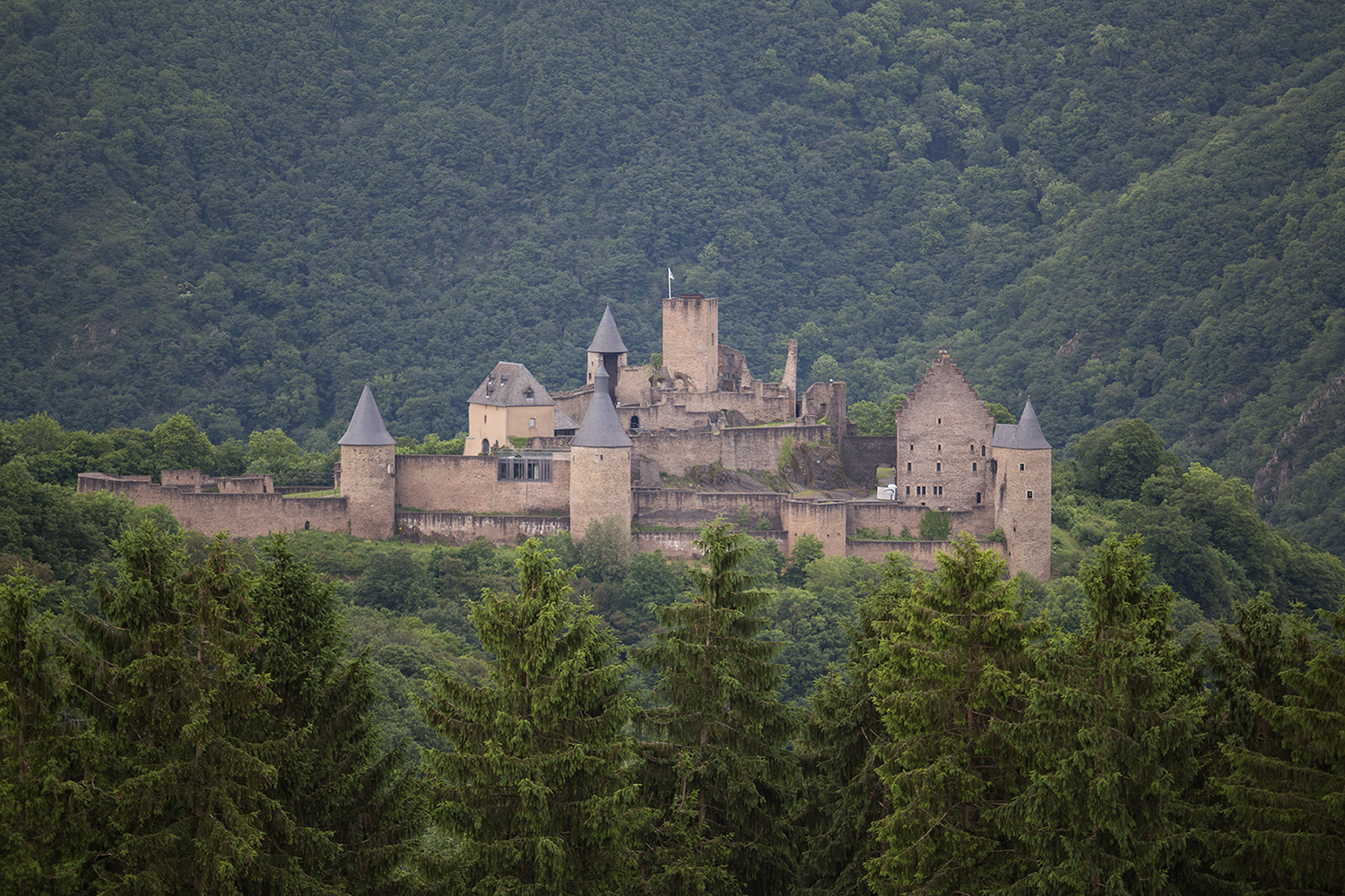 Bourscheid Castle in Luxembourg